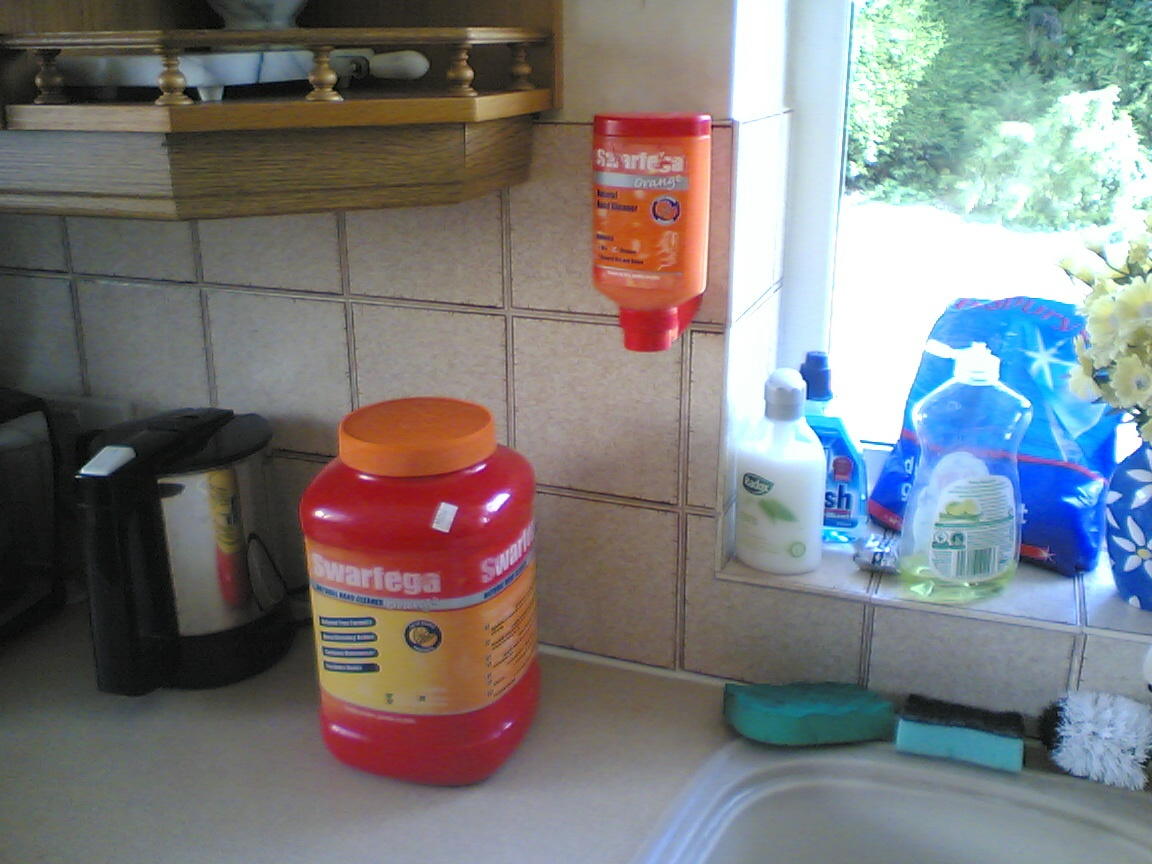 Swarfega dispenser installed. s a brand of heavy-duty hand cleaner made by Deb Limited, a British company based in Belper, Derbyshire, and is used in engineering and other oily, dirty, manual trades, such as printing. It is a dark green, gelatinous, thixotropic substance used to clean grease, oil, printer's ink, or general persistent, hydrophobic dirt from the skin. Swarfega was invented in 1947 by Audley Bowdler Williamson